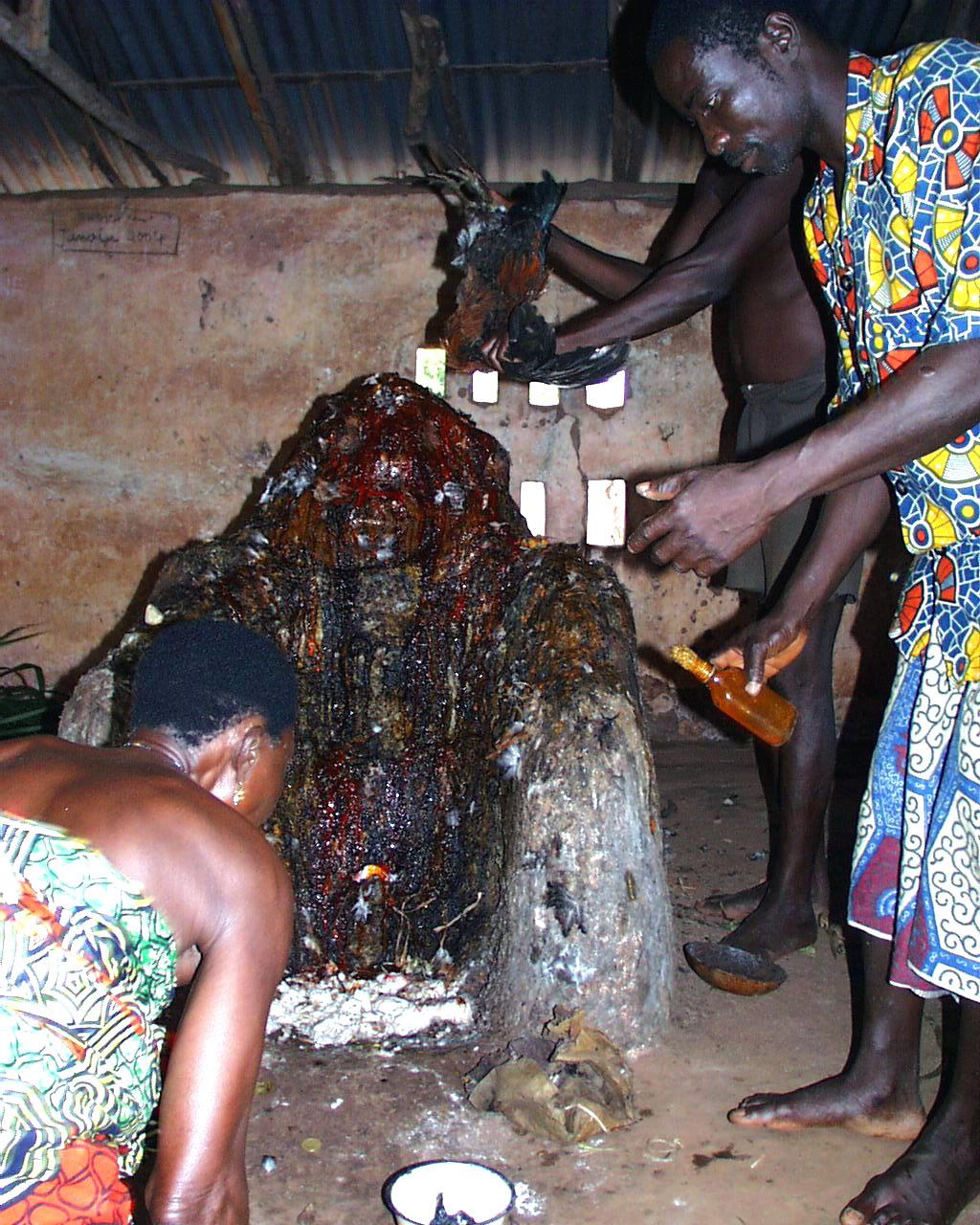 On a school trip to Abomey from Niger, we happened upon this voodoo shrine, the priest was telling us about voodoo, when this couple came to give thanks by sacrificing a chicken. This is an image of "African people at work" from Benin